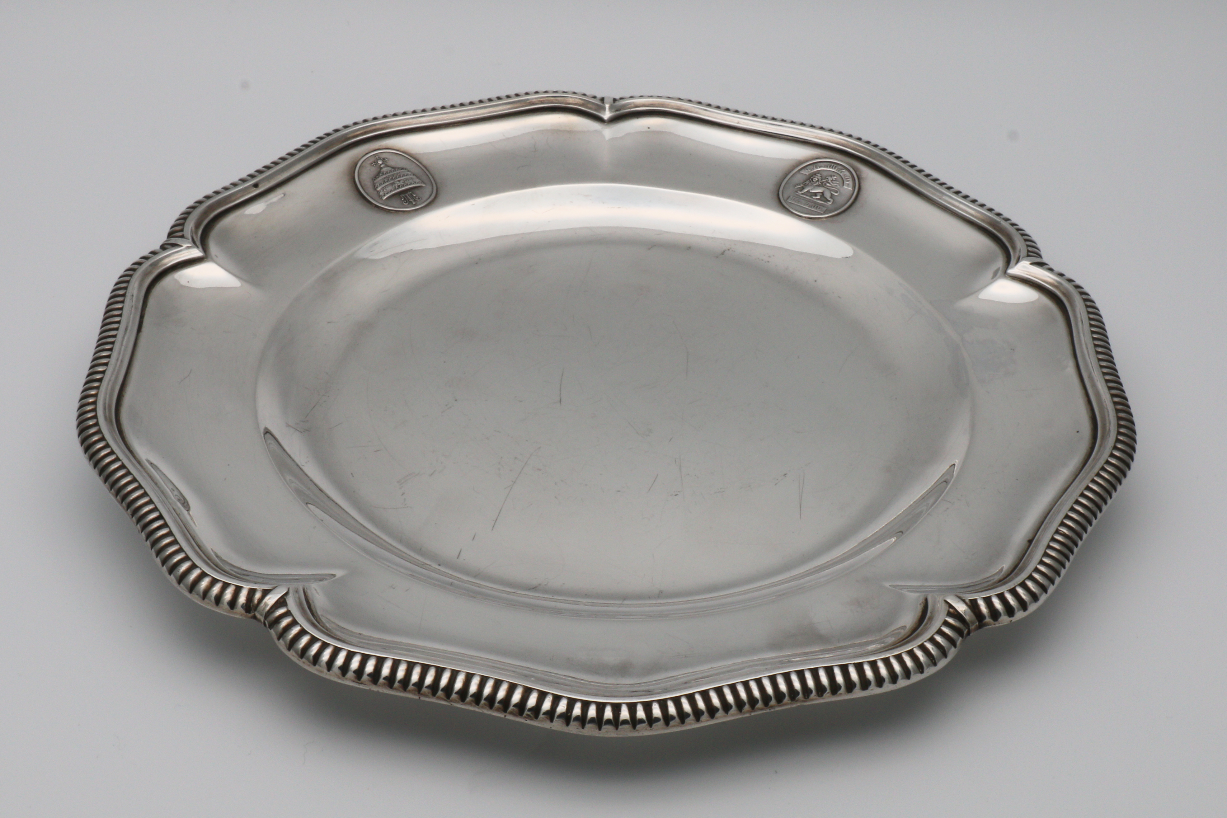 A Belgian silver plate from the Emperor Haile Selassie dinner service by Delheid Freres, 950 standard, circa 1930, import marked for London 1936, cinquefoil with a gadrooned rim, with an applied seal and crown of the Emperor